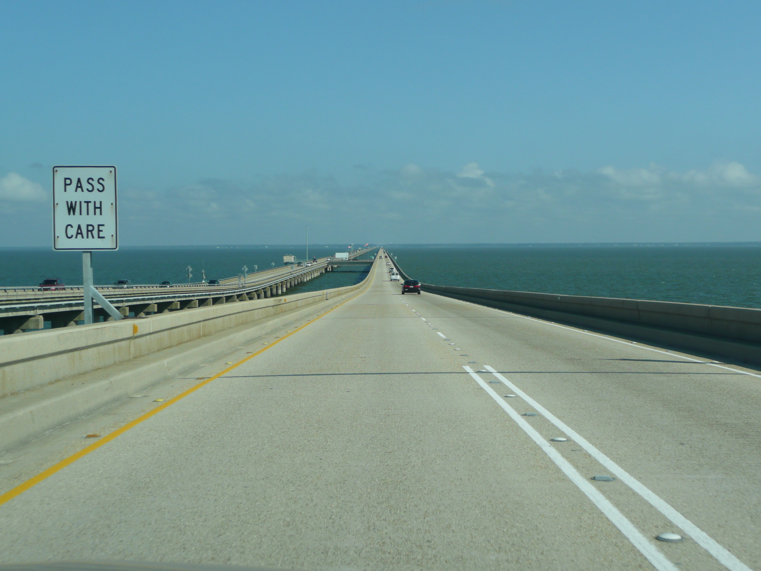 View while heading north on the Lake Pontchartrain Causeway